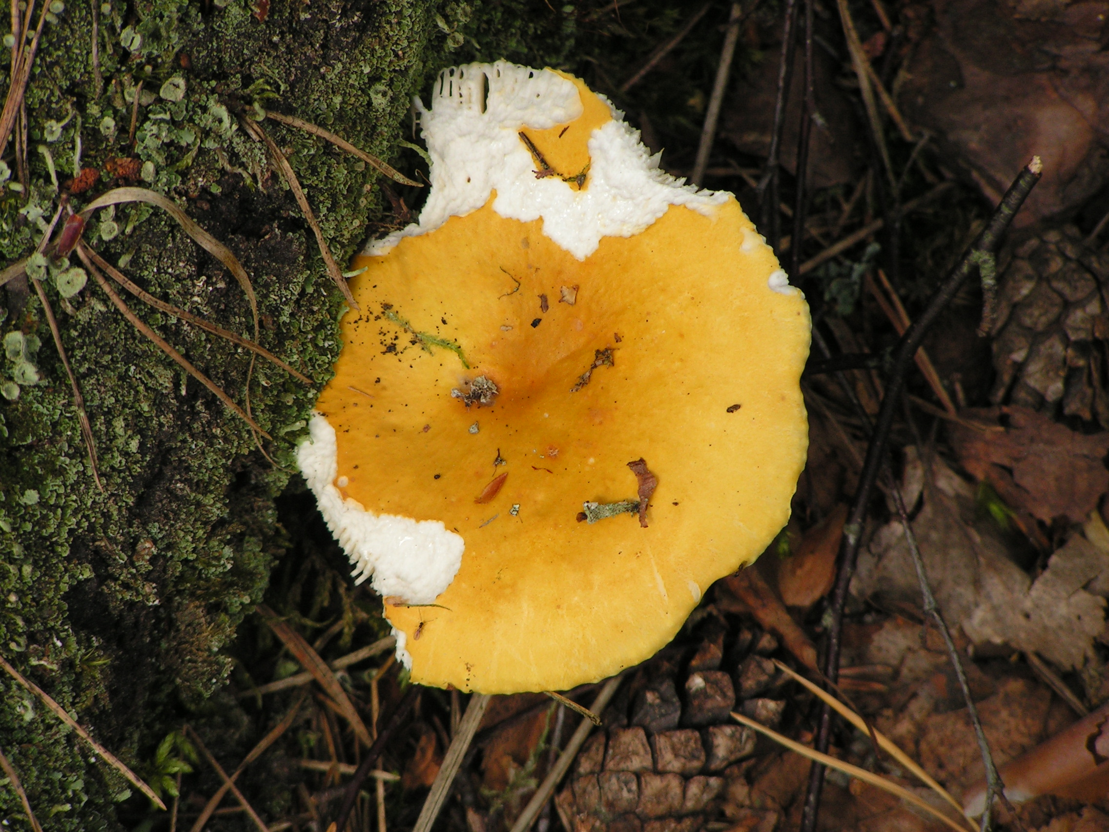 Yellow-grilled Russula (Russula lutea) near T?ebo?, Czech Republic. Photographed on 26 July 2005